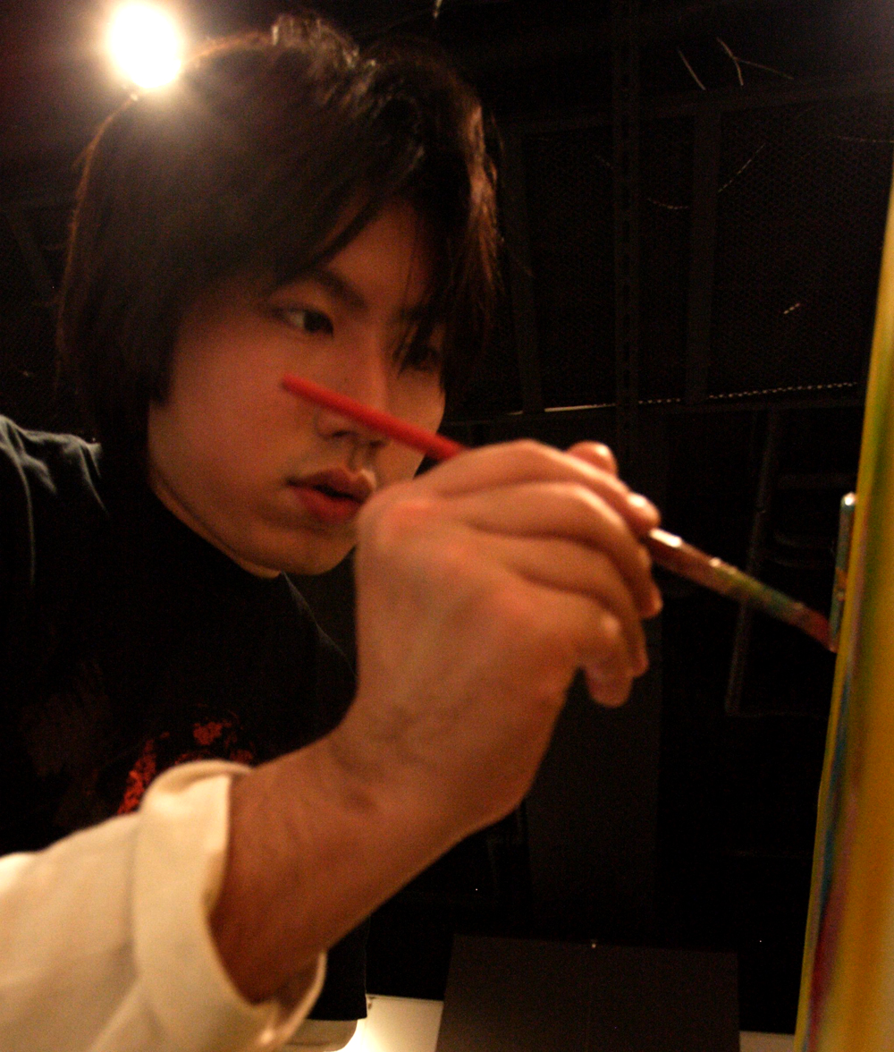 Drawing picture by AKI(painter)